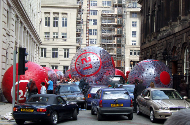 Advert filming in Exchange Street West, Liverpool Taken just off Dale Street, Central Liverpool